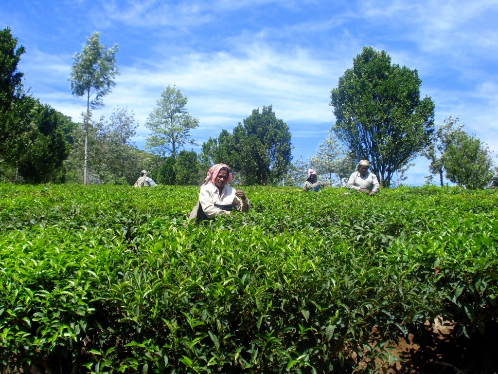 Tea garden labourers